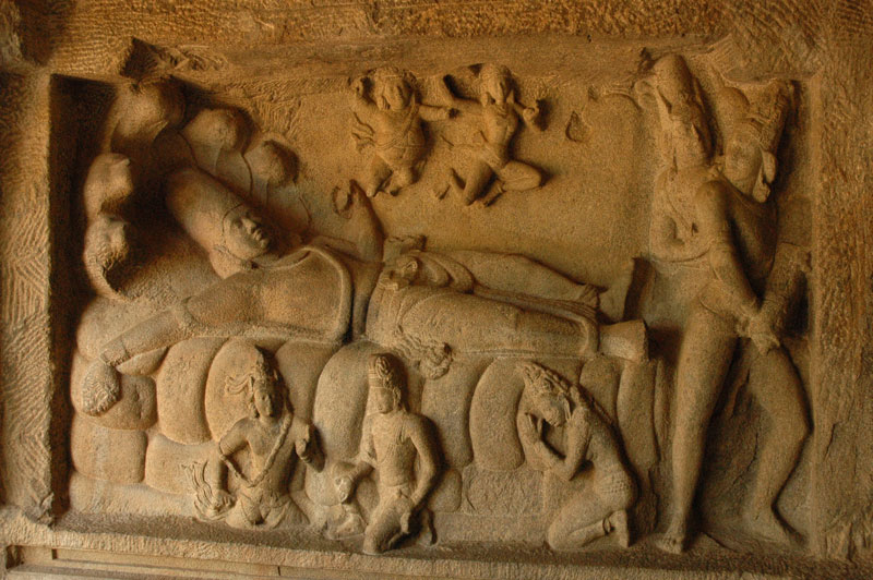 Mahishasura Mardini cave. Mahabalipuram, India